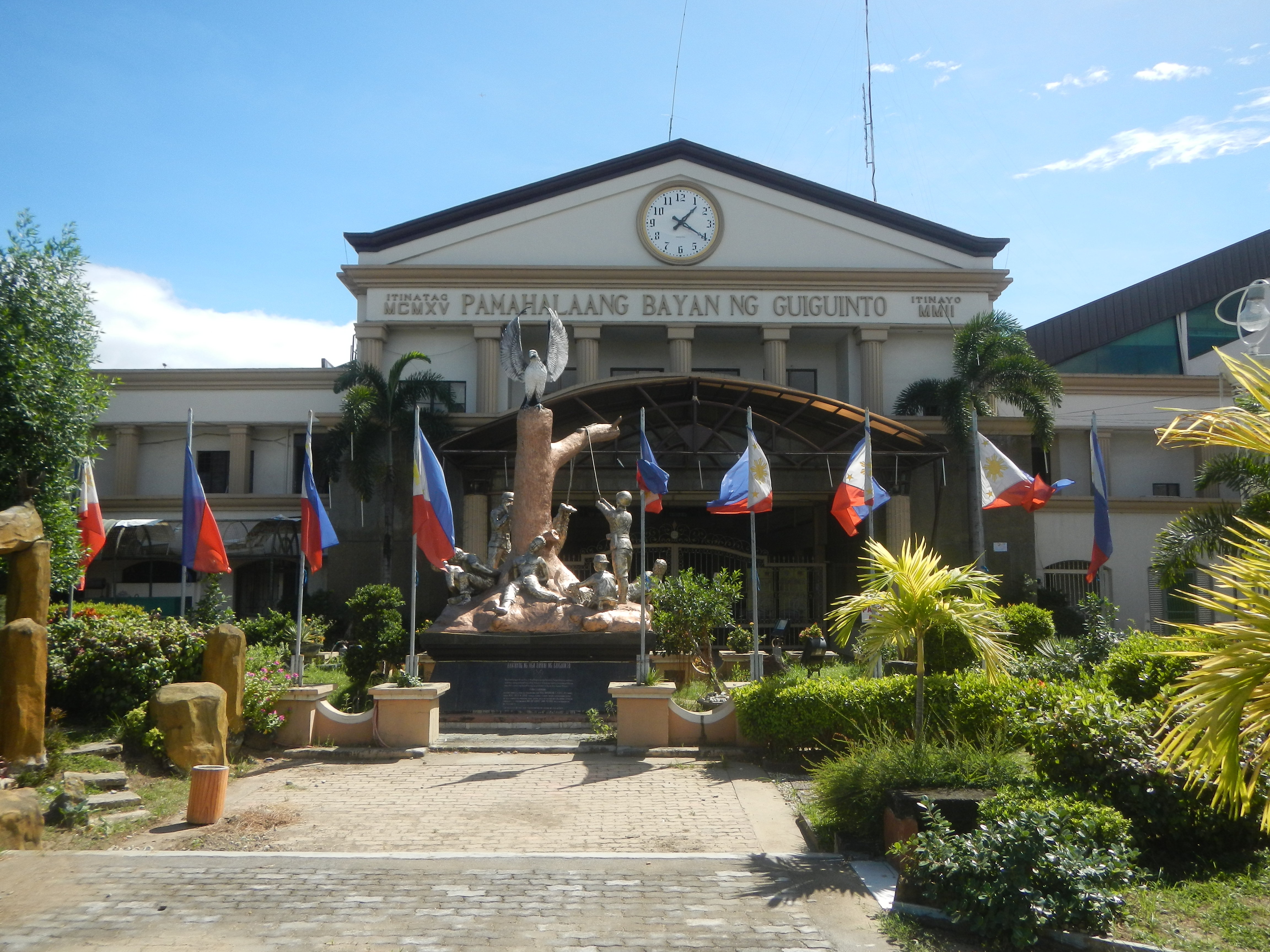 Giant Astronomical Clock (Guiguinto, Bulacan Municipal Hall) electric time Donated by Ysmael Trinidad; 6 feet diameter, the rotor vibrates 60 Hertz with MI and GPS; new Guiguinto, Bulacan Municipal Hall inaugurated on January 23, 2002 Established MCMXV, Built in MMII, Bantayog ng mga Bayani ng Guiguinto, Guiguinto, Bulacan Municipal Hall Pedestrian Overpass (Poblacion, Guiguinto, Bulacan, MacArthur Highway) Guiguinto, Bulacan Central School, 1915 School I.D. 104823 Barangay Poblacion beside Ilang-Ilang, Guiguinto, Bulacan, Bulacan province along MacArthur Highway or Manila North Road (Note: Judge Florentino Floro, the owner, to repeat, Donor Florentino Floro of all these photos hereby donate gratuitously, freely and unconditionally all these photos to and for Wikimedia Commons, exclusively, for public use of the public domain, and again without any condition whatsoever).